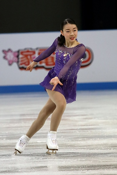 Photos – Junior World Championships 2018 – Ladies (Rika KIHIRA JPN – 8th Place)